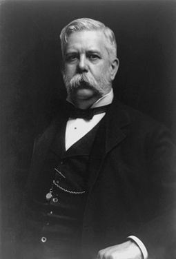 The entrepreneur and engineer introduced a rival AC based power distribution network in 1886.